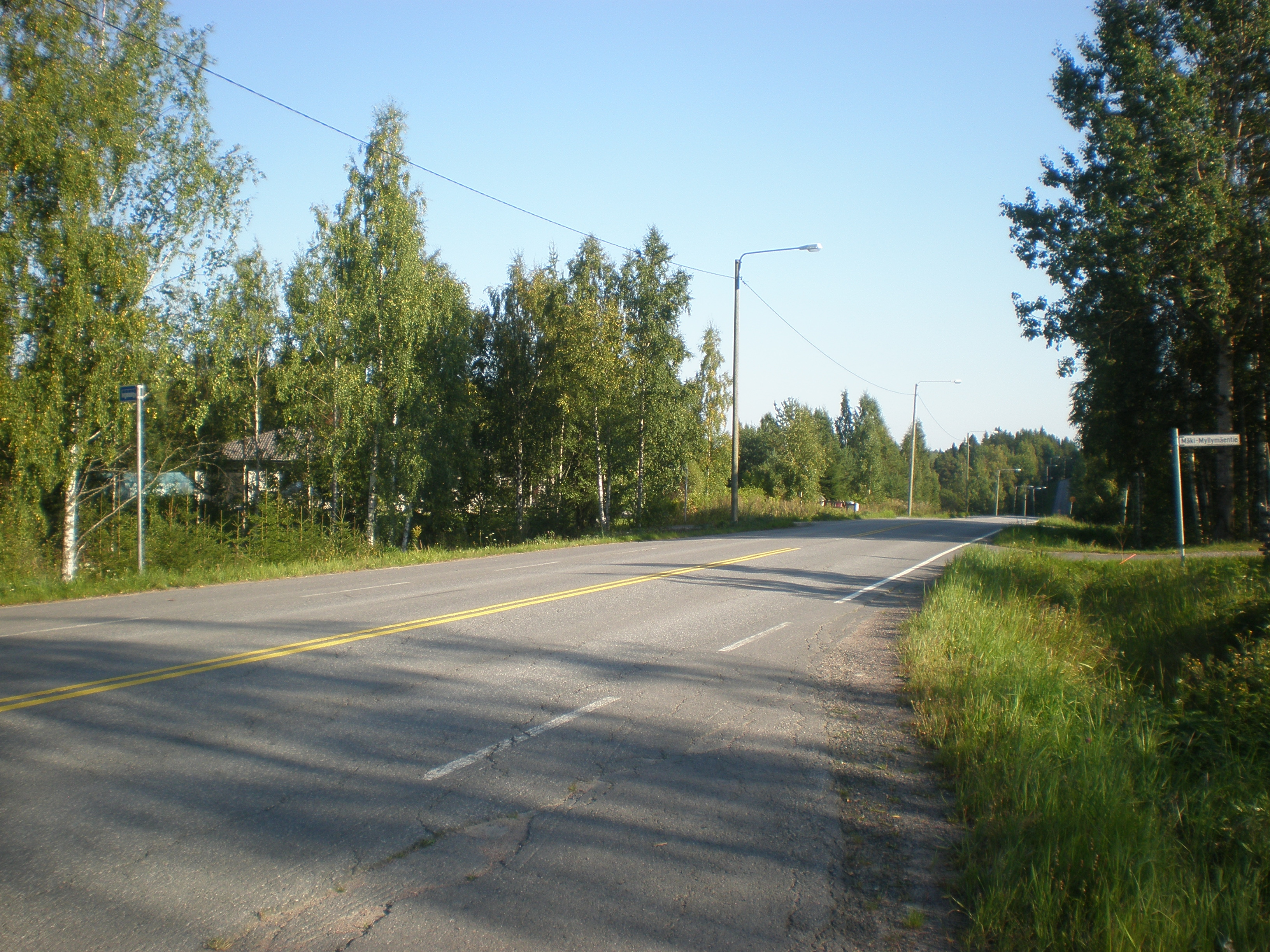 Mutala village road, Ylöjärvi